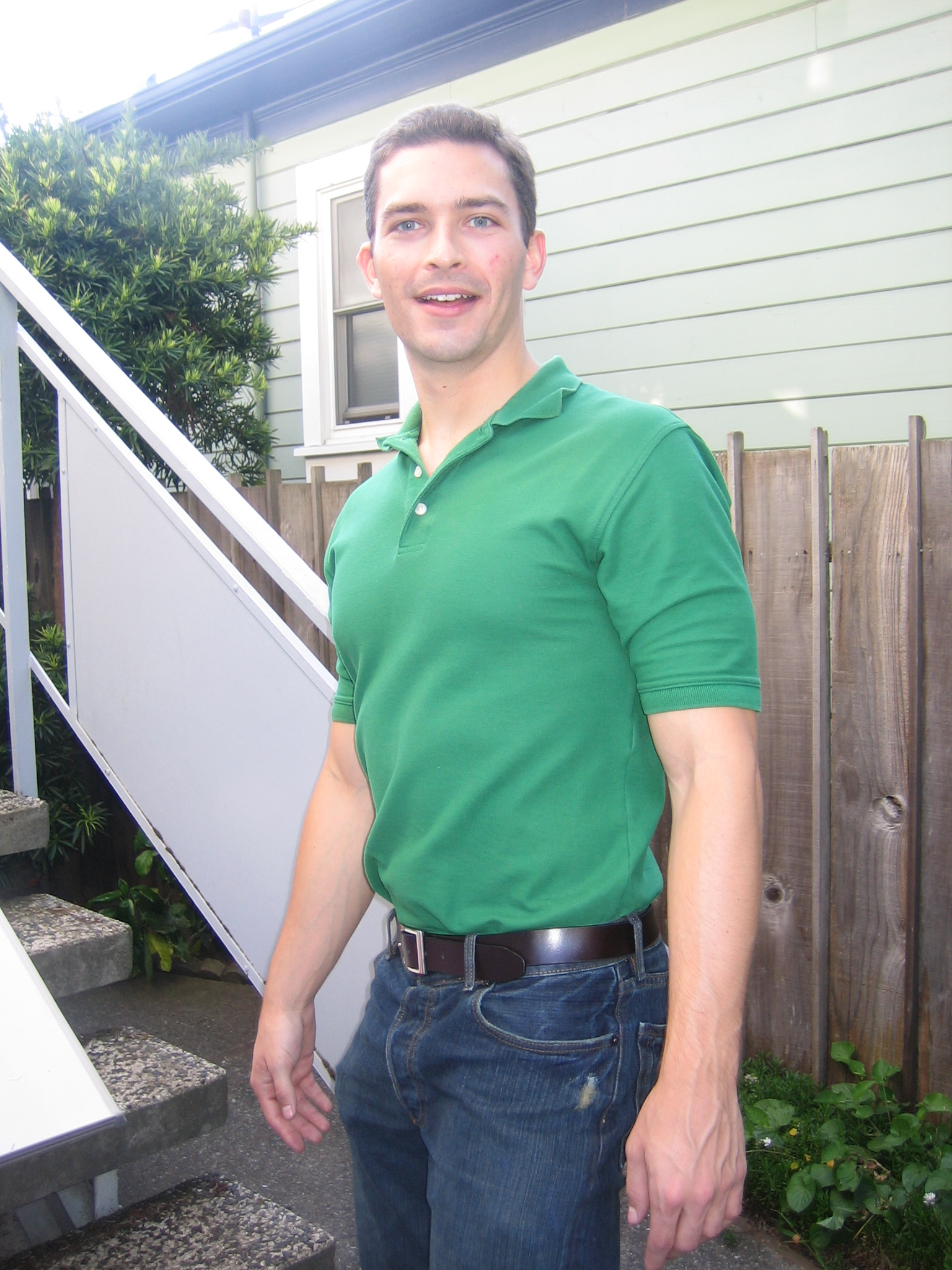 I was drunk and was leaving. I'm